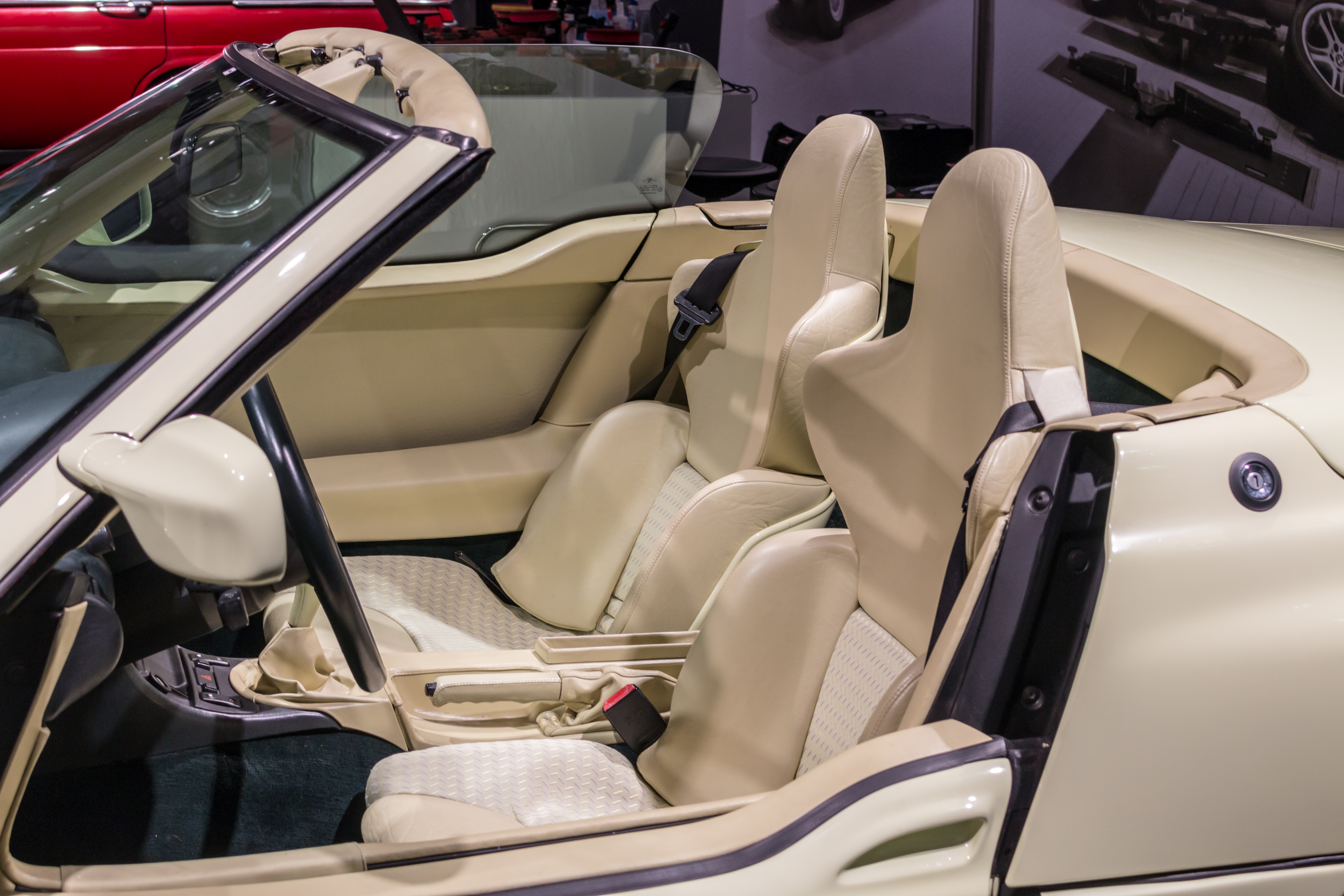 BMW, Techno-Classica 2018, Essen